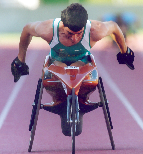 Paralympic Gold medallist and World Champion Lachlan Jones OAM